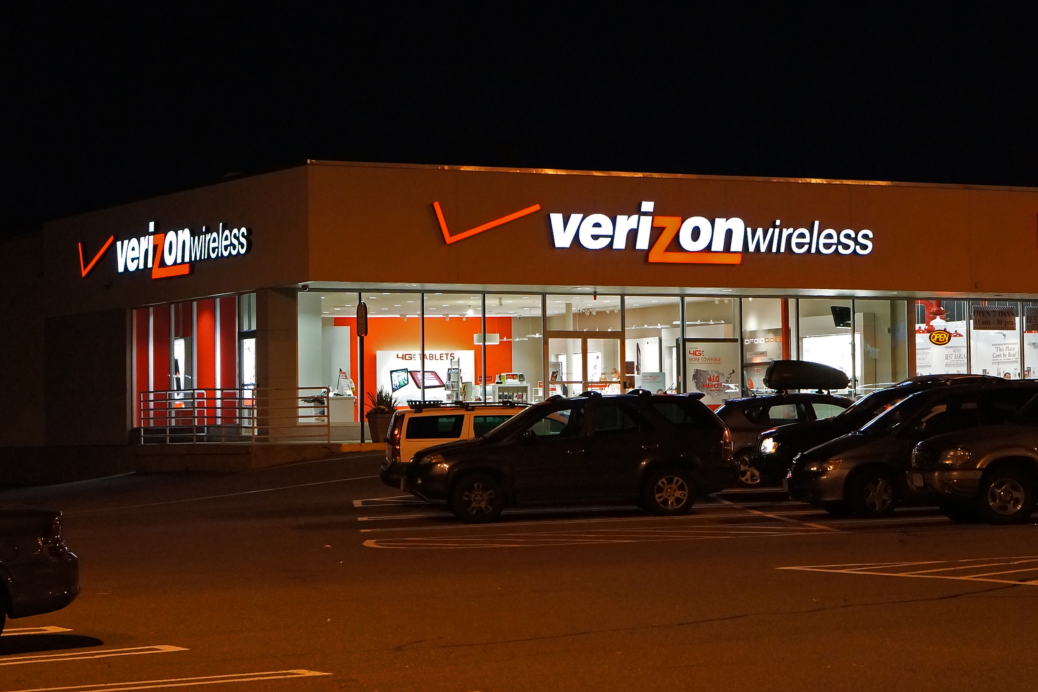 Verizon Wireless retail store - Saugus, Massachusetts